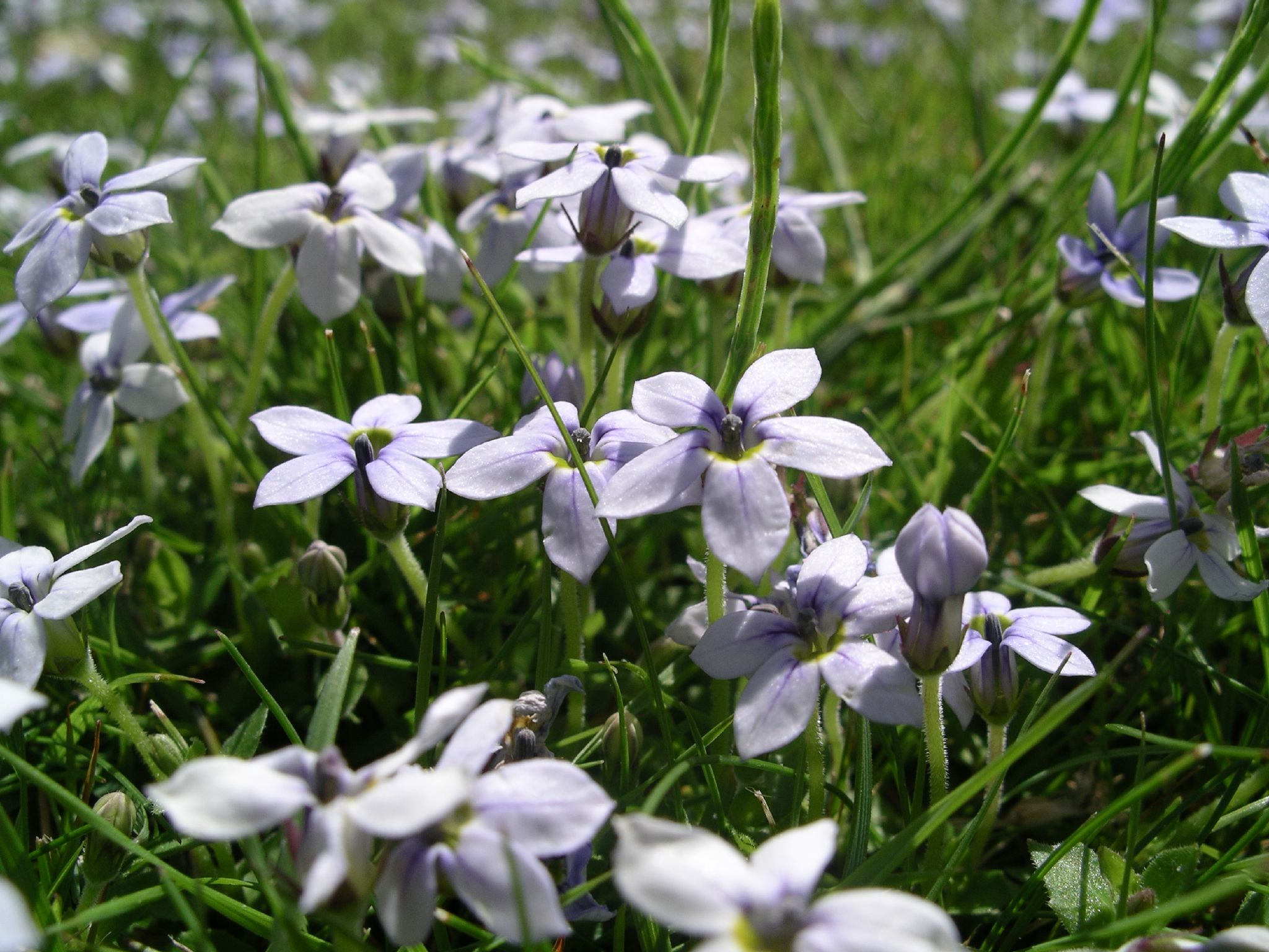 Pratia sp. in the grass